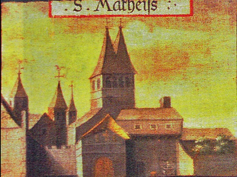 St. Matthias' Abbey in 1589